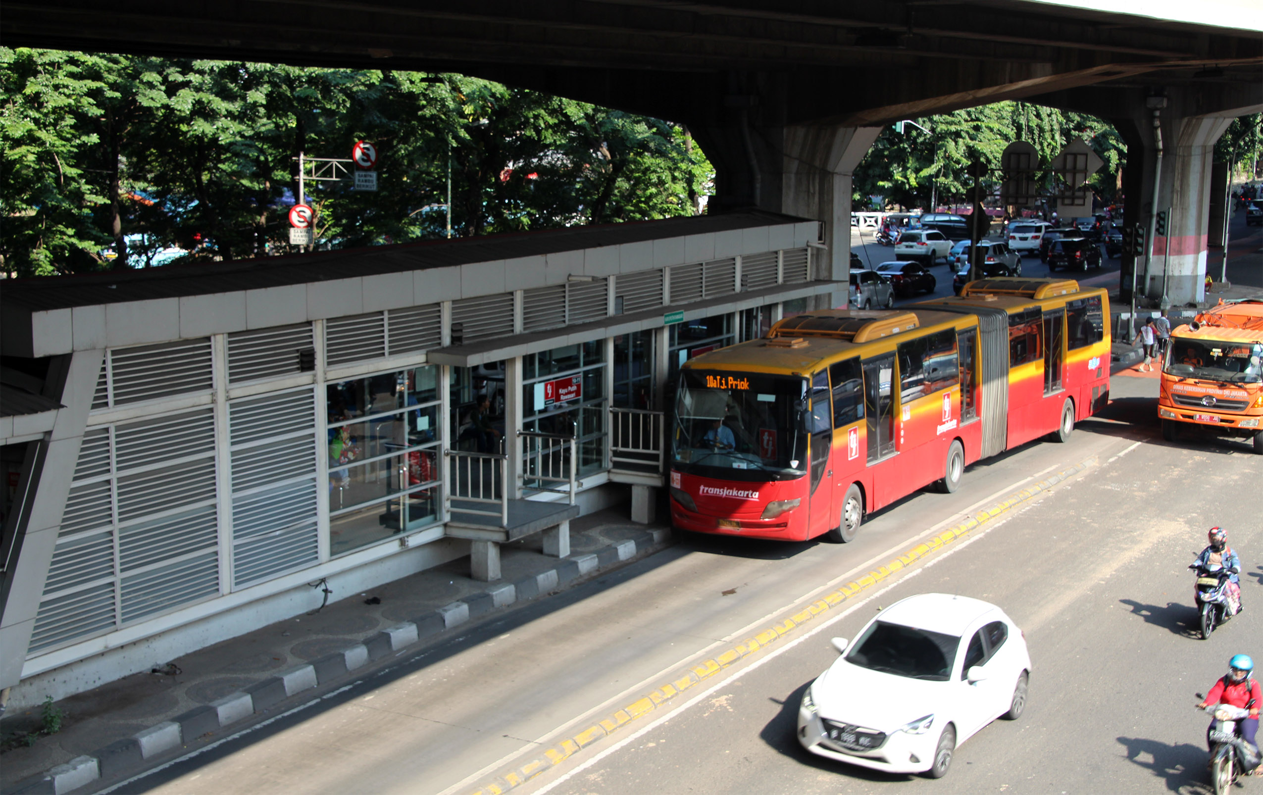 Transjakarta articulated bus Corridor 10 at K10.11 Halte Kayu Putih Rawasari, Central Jakarta.